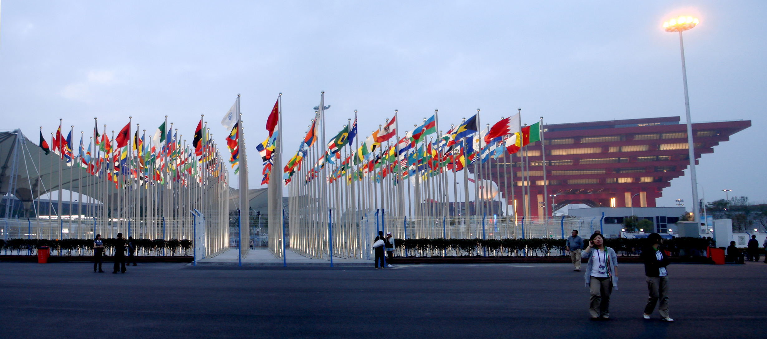 South entrance of Expo 2010 Shanghai, near the Expo Boulevard